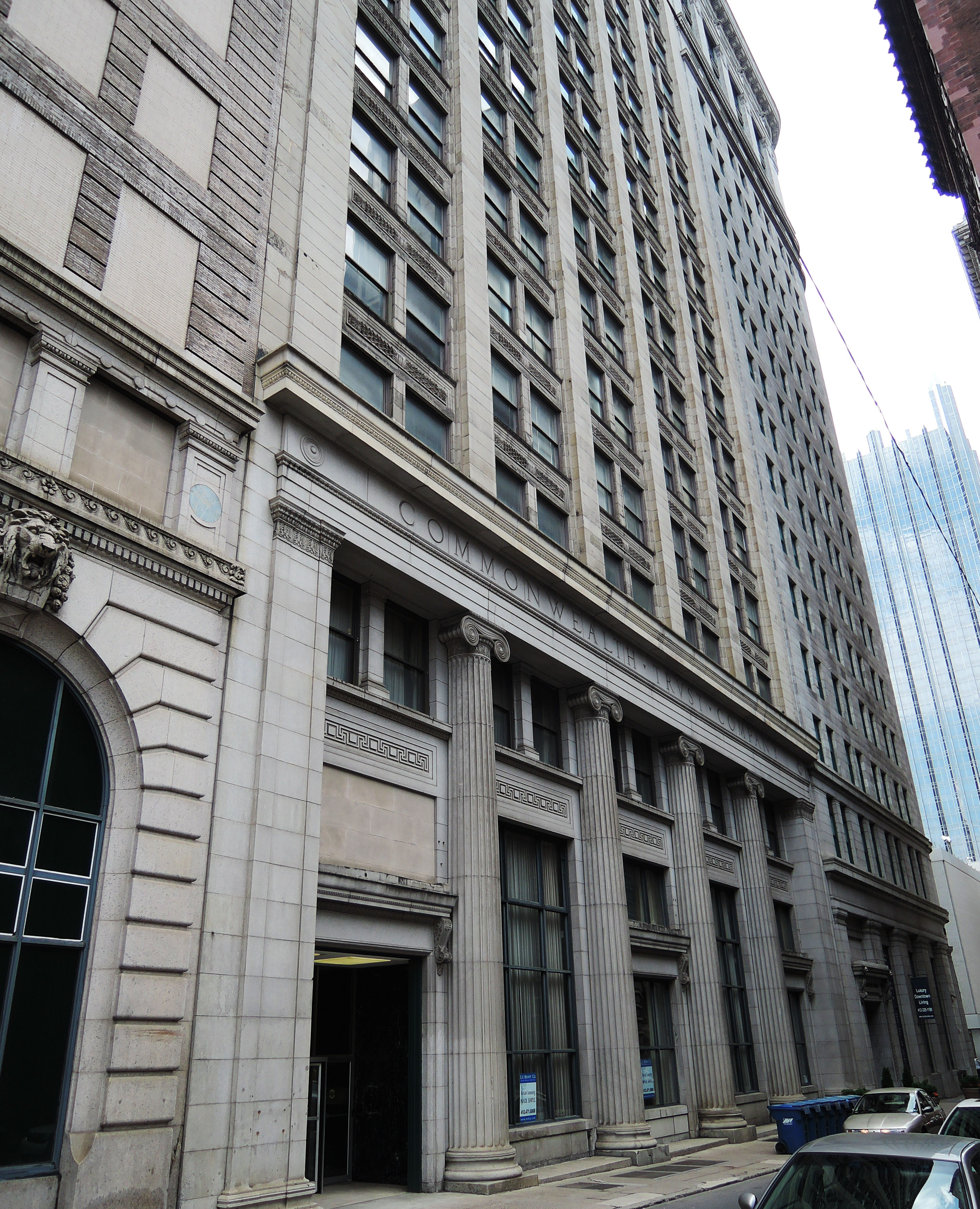 Looking west on 4th Avenue at Commonwealth Bank.